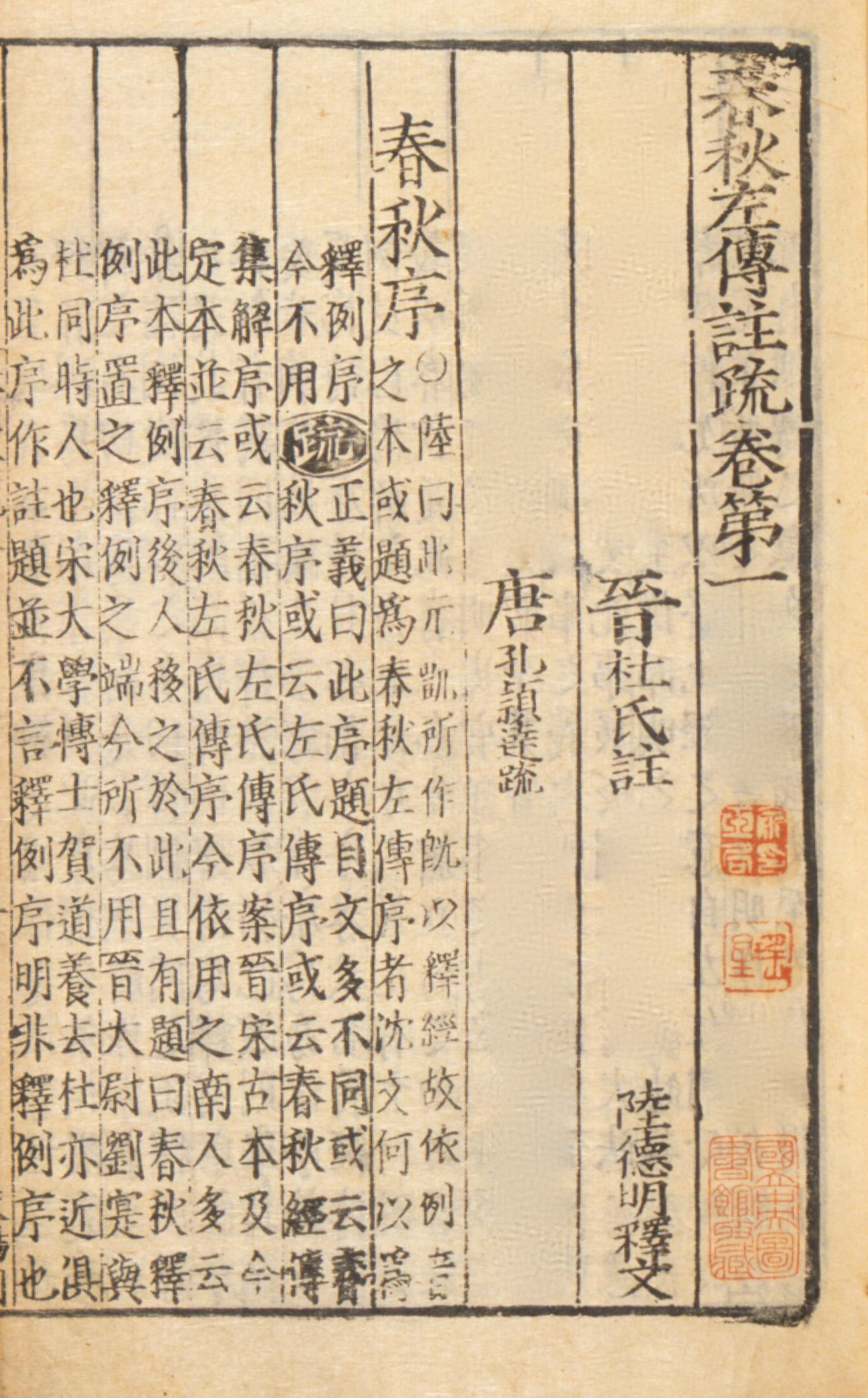 First page, Li Yuanyang edition of Zuo zhuan (16th century)